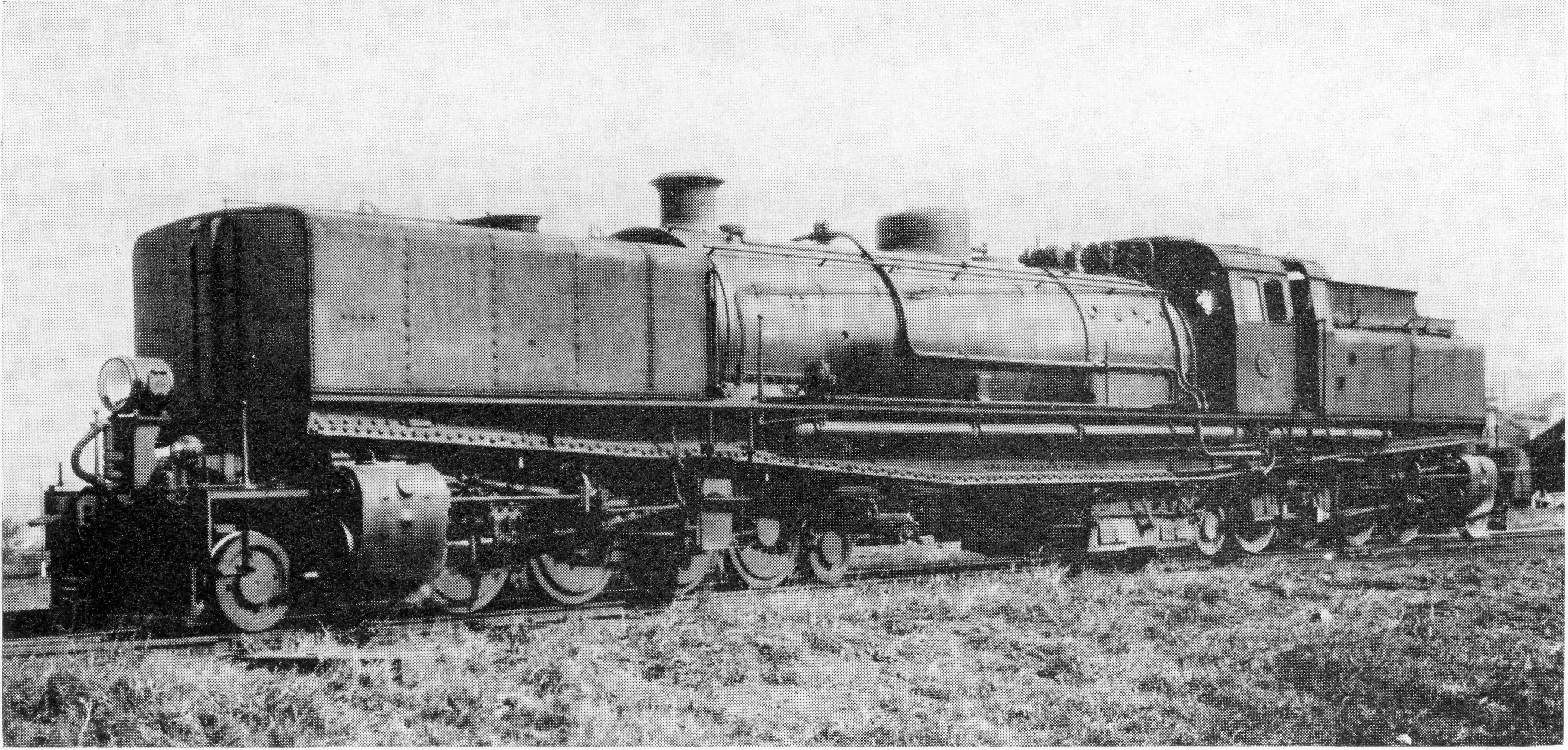 SAR Class HF 1386 (2-8-2+2-8-2) Location: Durban Loco